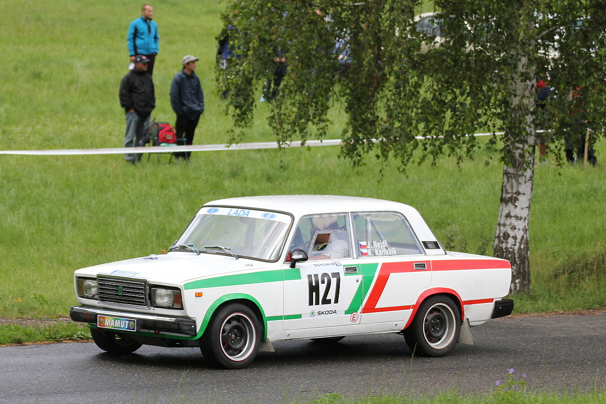 H27 Jiří Nejdl - Karel Karlubík (CZE) - Lada 21074 / group A / 1989, replica 2012